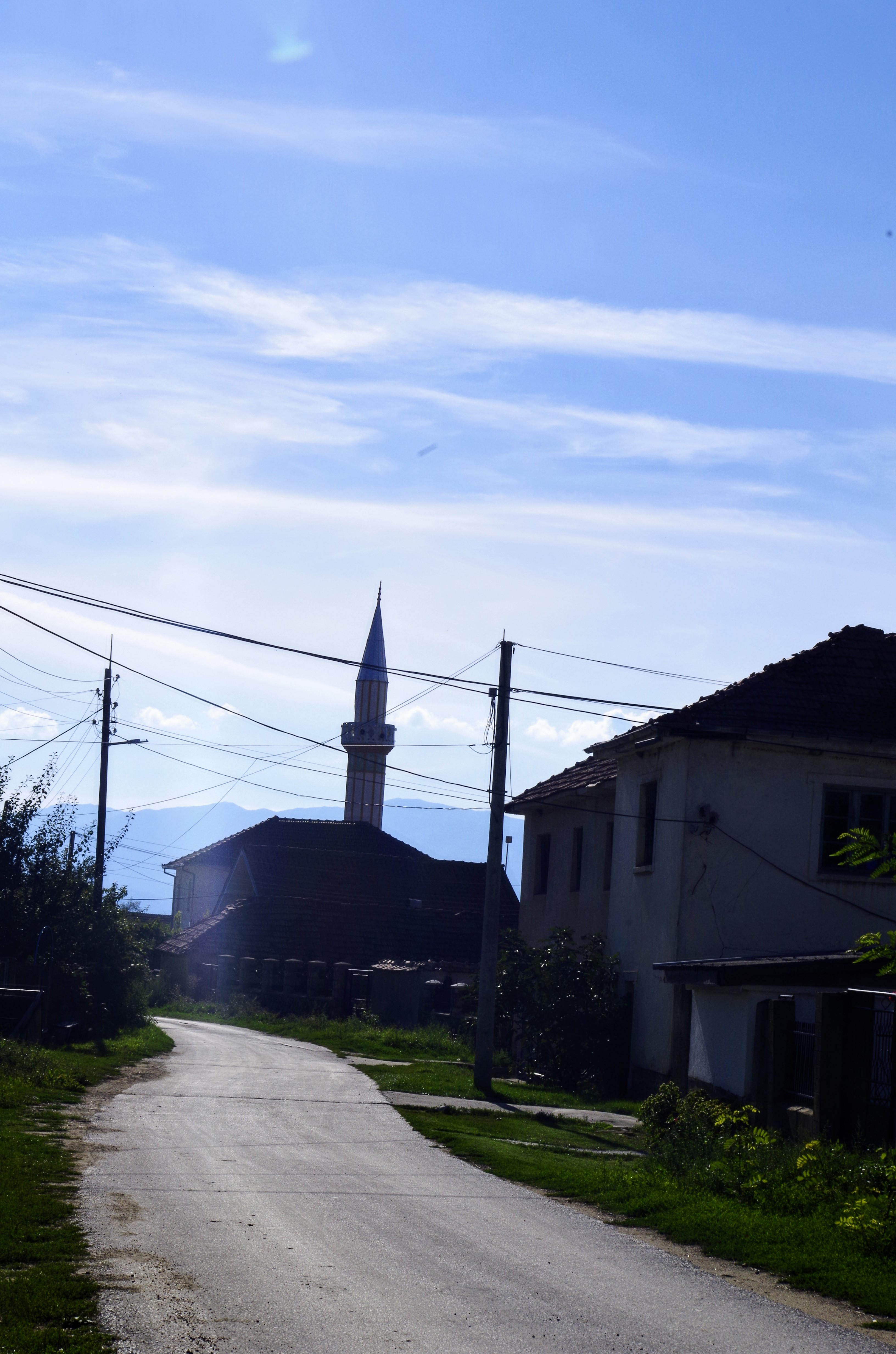 View of the mosque in the village Nakolec